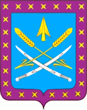 Coat of arms of Brinkovskaya, Primorsko-Ajtarsk Raion, Krasnodar Krai, Russia.